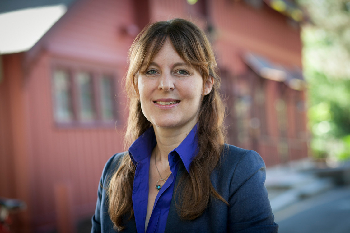 Lisa Kaltenegger standing in front of a building